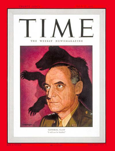 Time magazine, Volume 52 Issue 2. Front cover is an illustration of Lucius D. Clay.